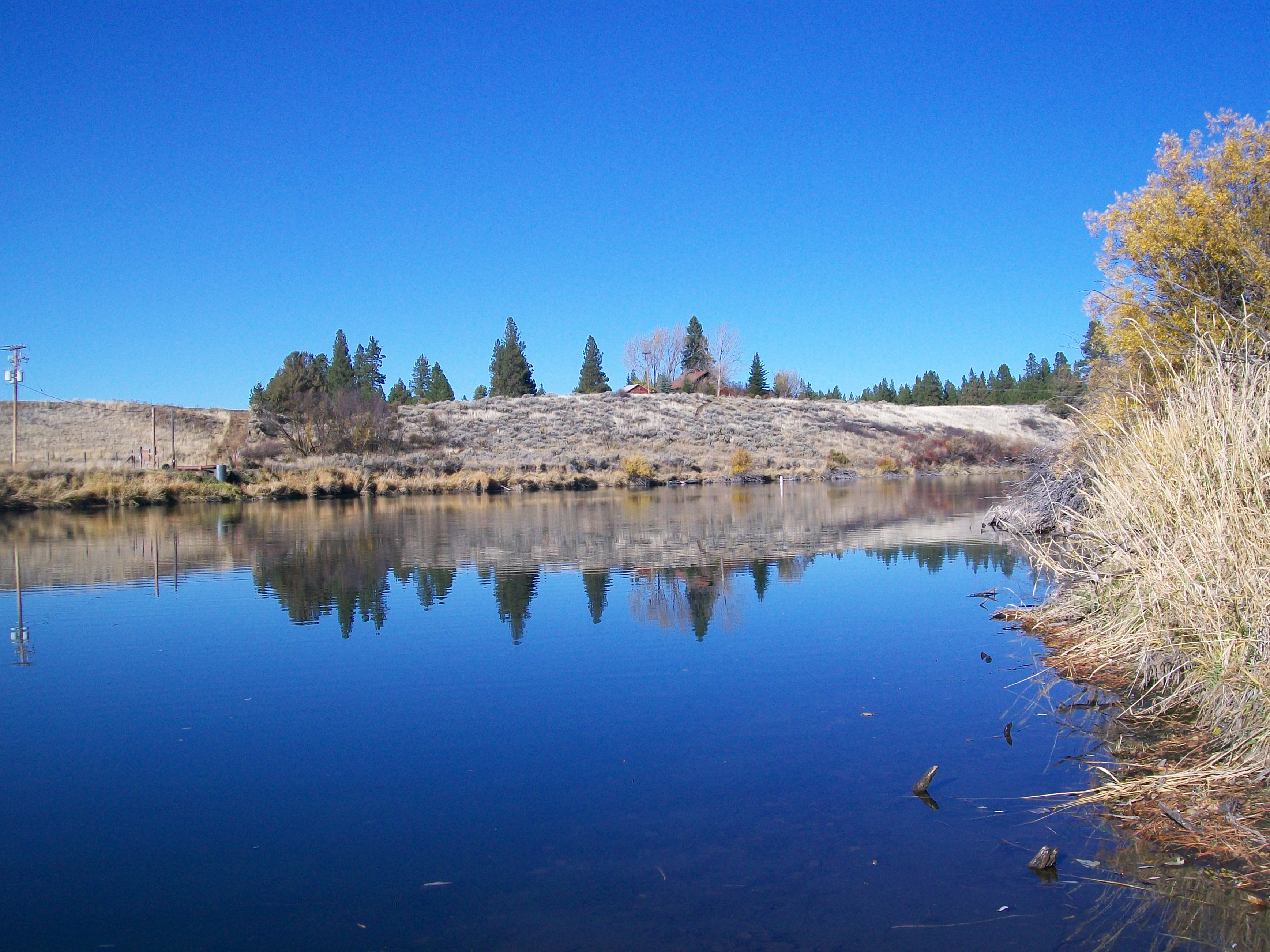 Upstream view of Williamson River (Oregon) on the west bank off Modoc Point Rd (Co Rd 1334) within the Williamson River Indian Mission.